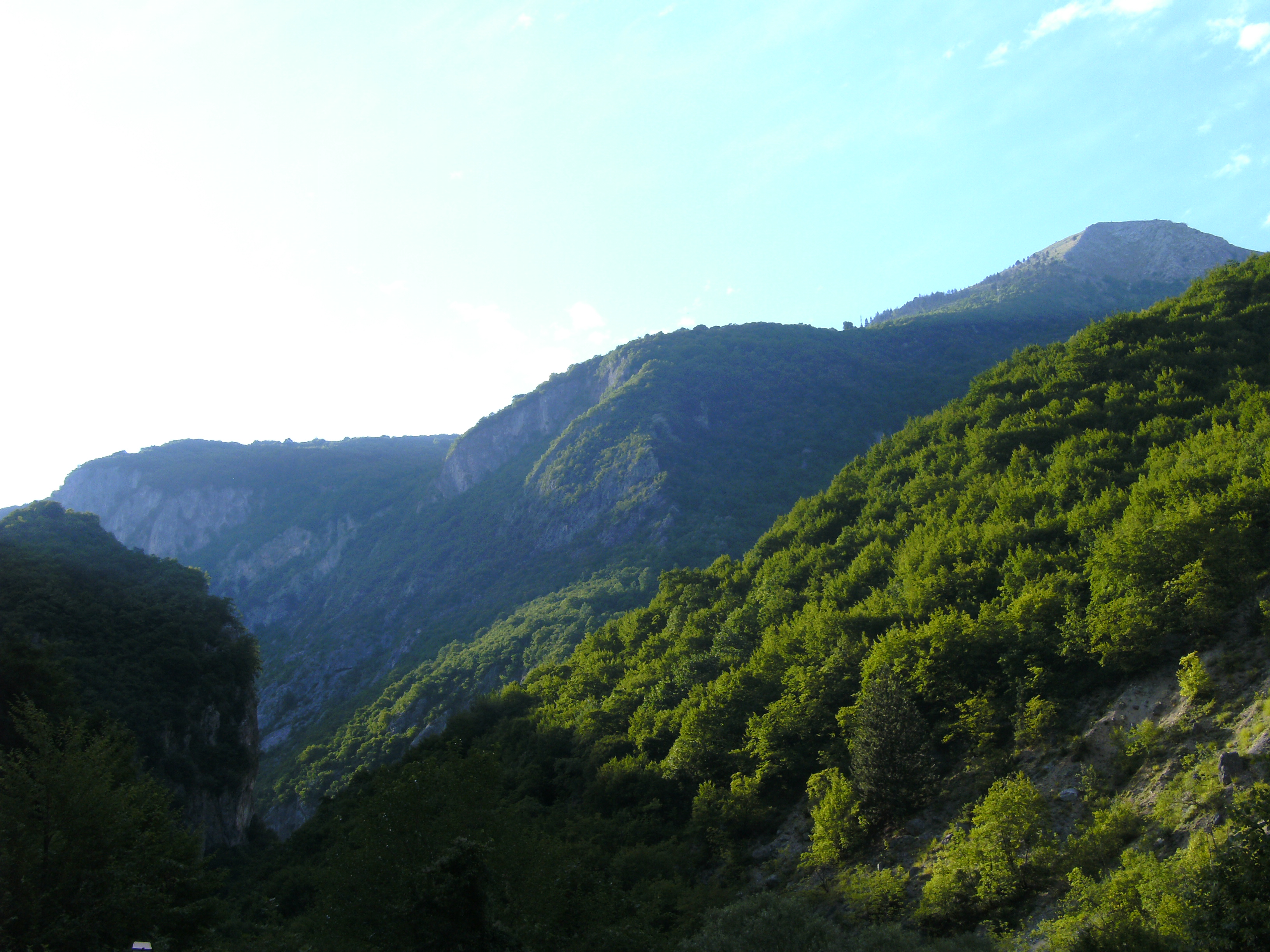 Rugova Canyon close to Pejë (western Kosovo)